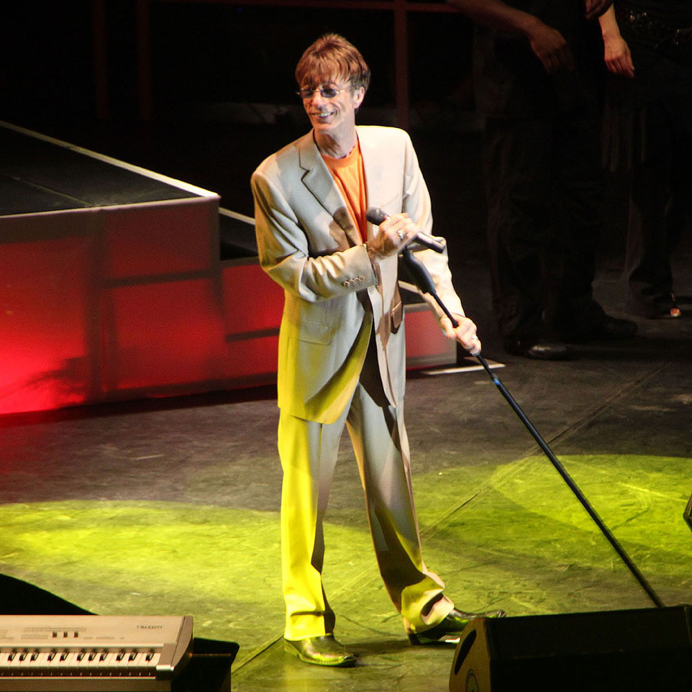 Robin Gibb in concert 2009 Mai Leipzig